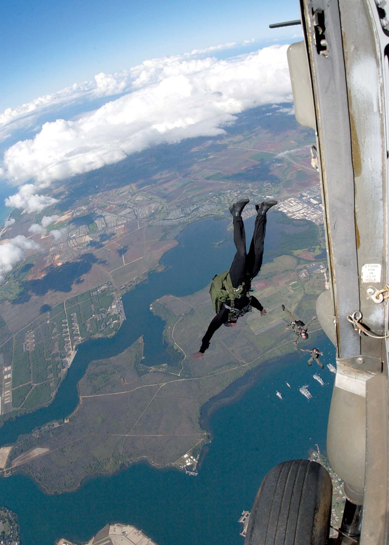 030312-N-7590D-030 Members of Special Operations Command Pacific, conduct a free-fall parachute training jump from a U.S. Army UH-60L Black Hawk helicopter from more than 10,000 feet. (All Hands, April 2004, pg. 44) Photo by Photographer's Mate 1st Class Keith DeVinney. (RELEASED)